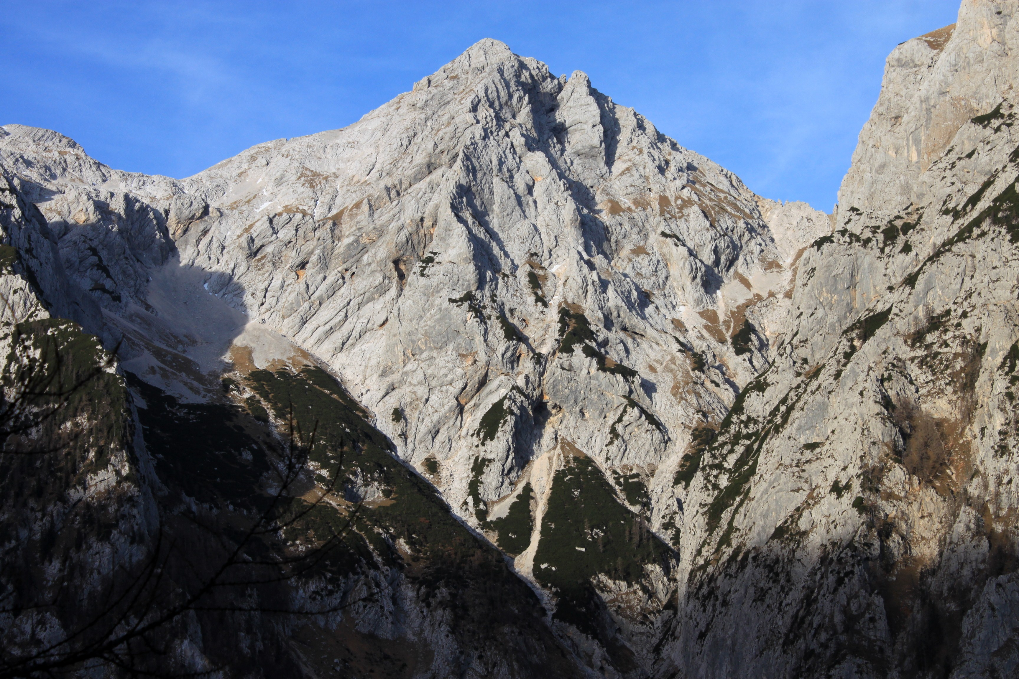 Turska gora south face above Kamniška Bistrica.